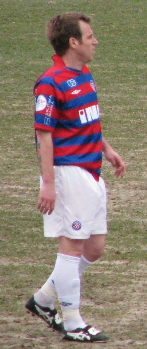 Florin Cernat